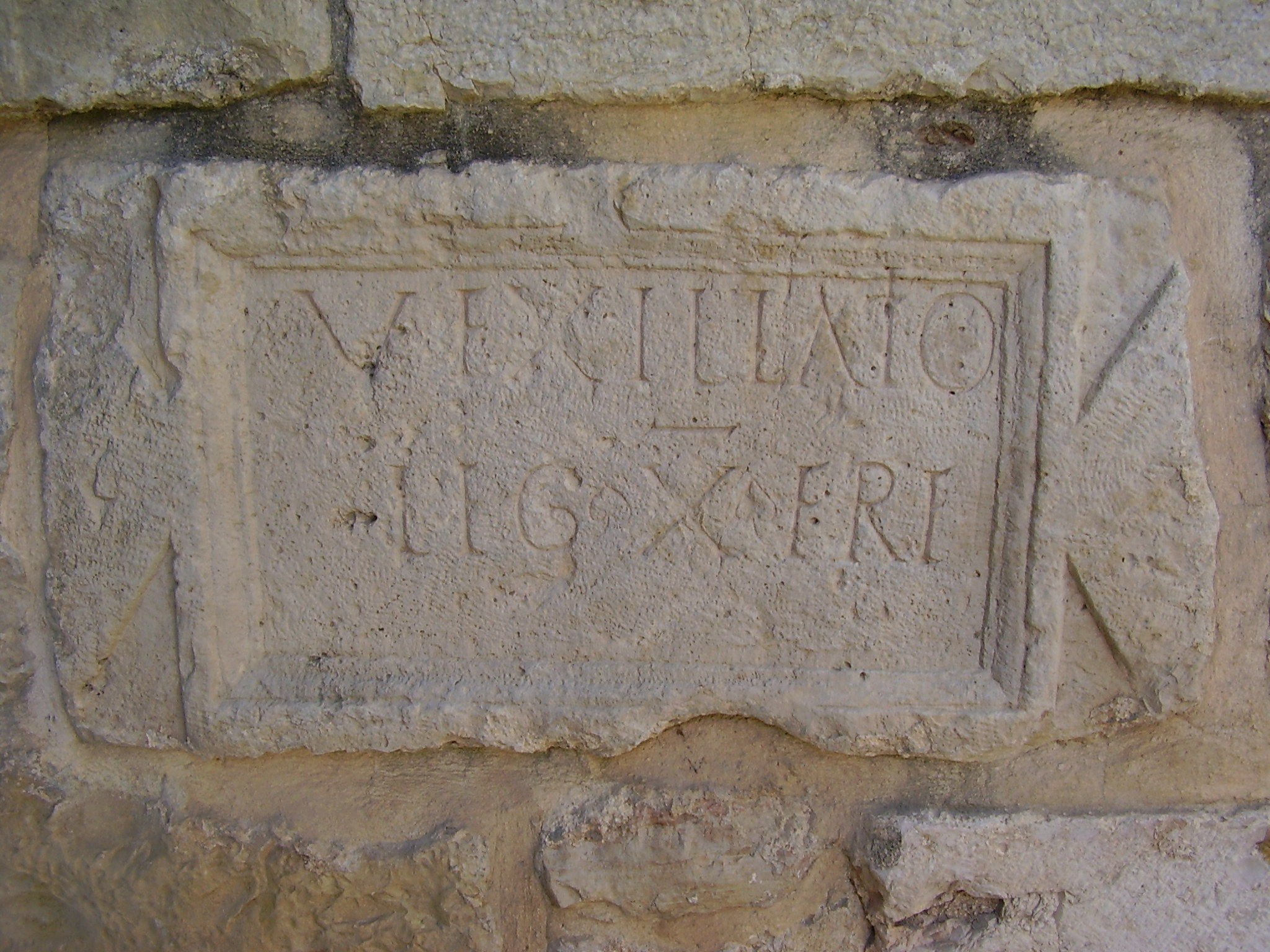 Inscription of Legio X Fretensis in the crusader church in Abu Ghosh, Israel. GLICMar 00048 = AE 1972, 00670.